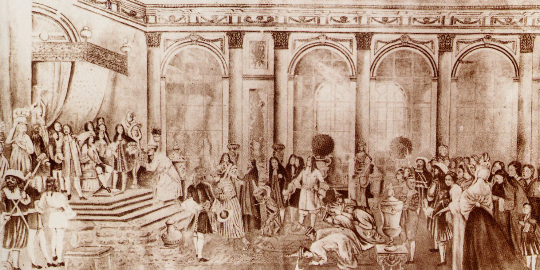 Siamese ambassador Kosa Pan presents King Narai's letter to Louis XIV's court at Versailles, 1 September 1686.